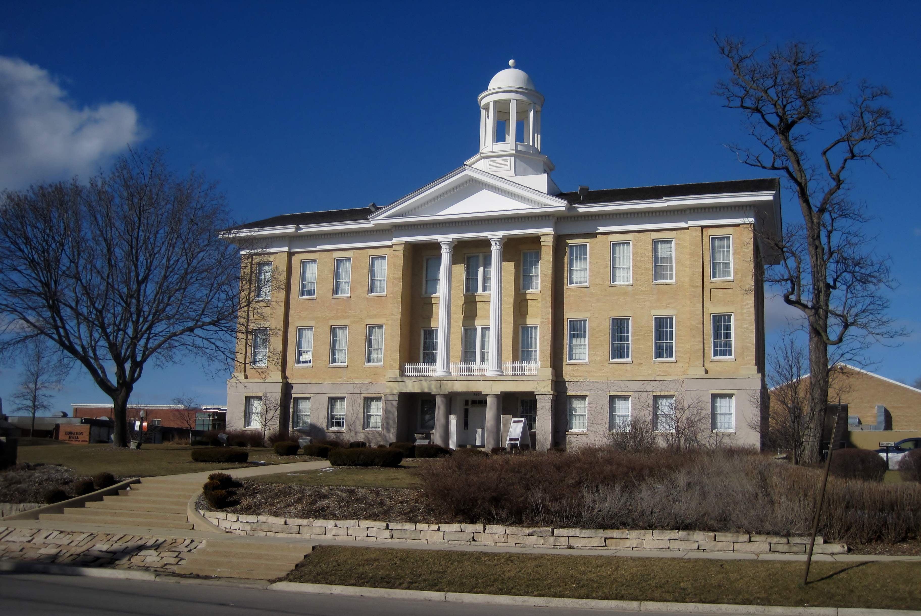 The Elgin Academy (1856). The charter for the school was issued in 1839, four years after Elgin was founded. However, the fledgling city was initially unable to finance it. The main school building was built in 1856, though the first diploma wasn't awarded until 1872--it was presented to the granddaughter of Elgin's founder. By the mid 1870s, 274 students were enrolled. Classes were held in the building until 1969, when the fire marshall deemed the building unsafe for use. In the 1970s, the academy sold the Old Main building to the city of Elgin for $1 and it was converted into a museum. The academy today is a member of the National Association of Independent Schools and is accredited by the North Central Association of Colleges and Schools.